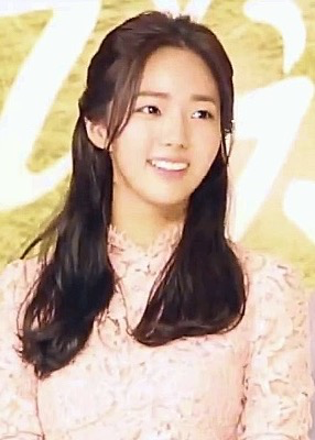 Love in the Moonlight Press conference